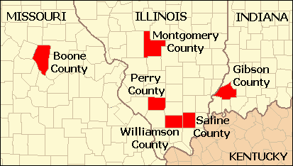 Locator Map of counties affected by the Marion, Illinois Tornado outbreak, United States (May 29, 1982)